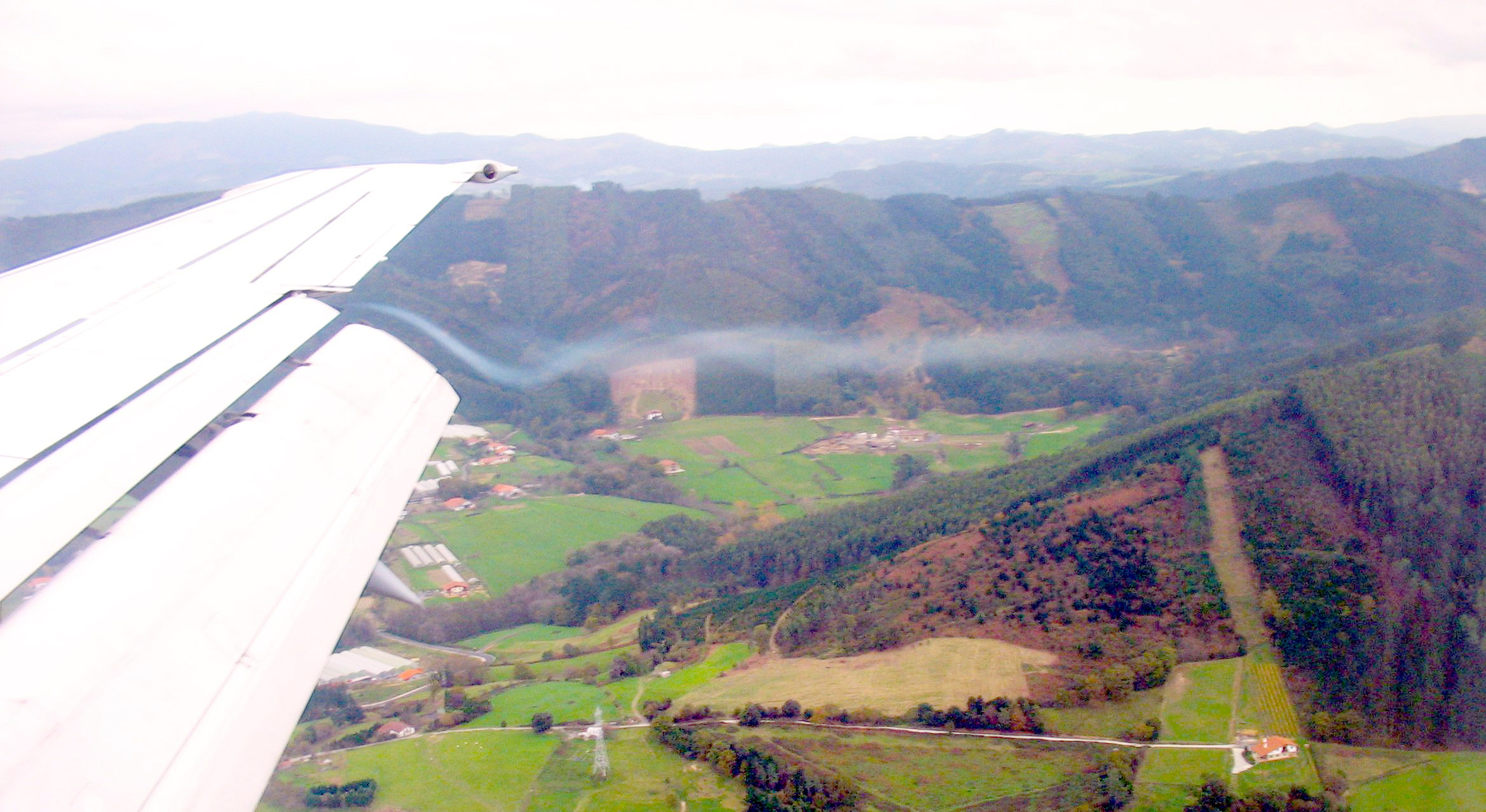 Airplane trail due to wing-tip causing change in air pressure. Minutes before landing in Bilbao. In the background the village of Goitiolza is visible.